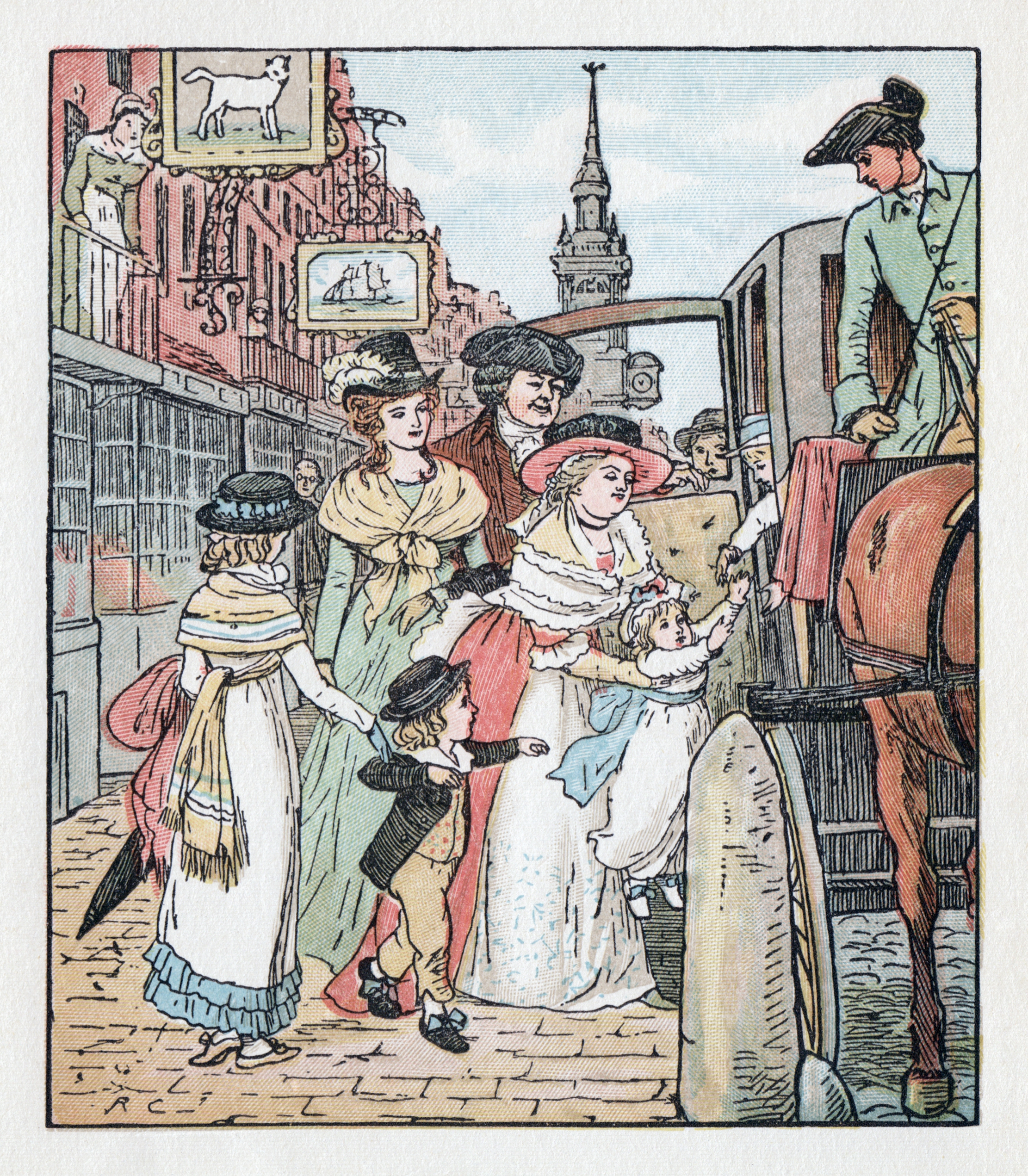 Fifth illustration and second colour illustration [the book contains several small black and white illustrations] from Randolph Caldecott's illustrations to The Diverting History of John Gilpin. Page 7 in edition given. The poem is by William Cowper (1731-1800).